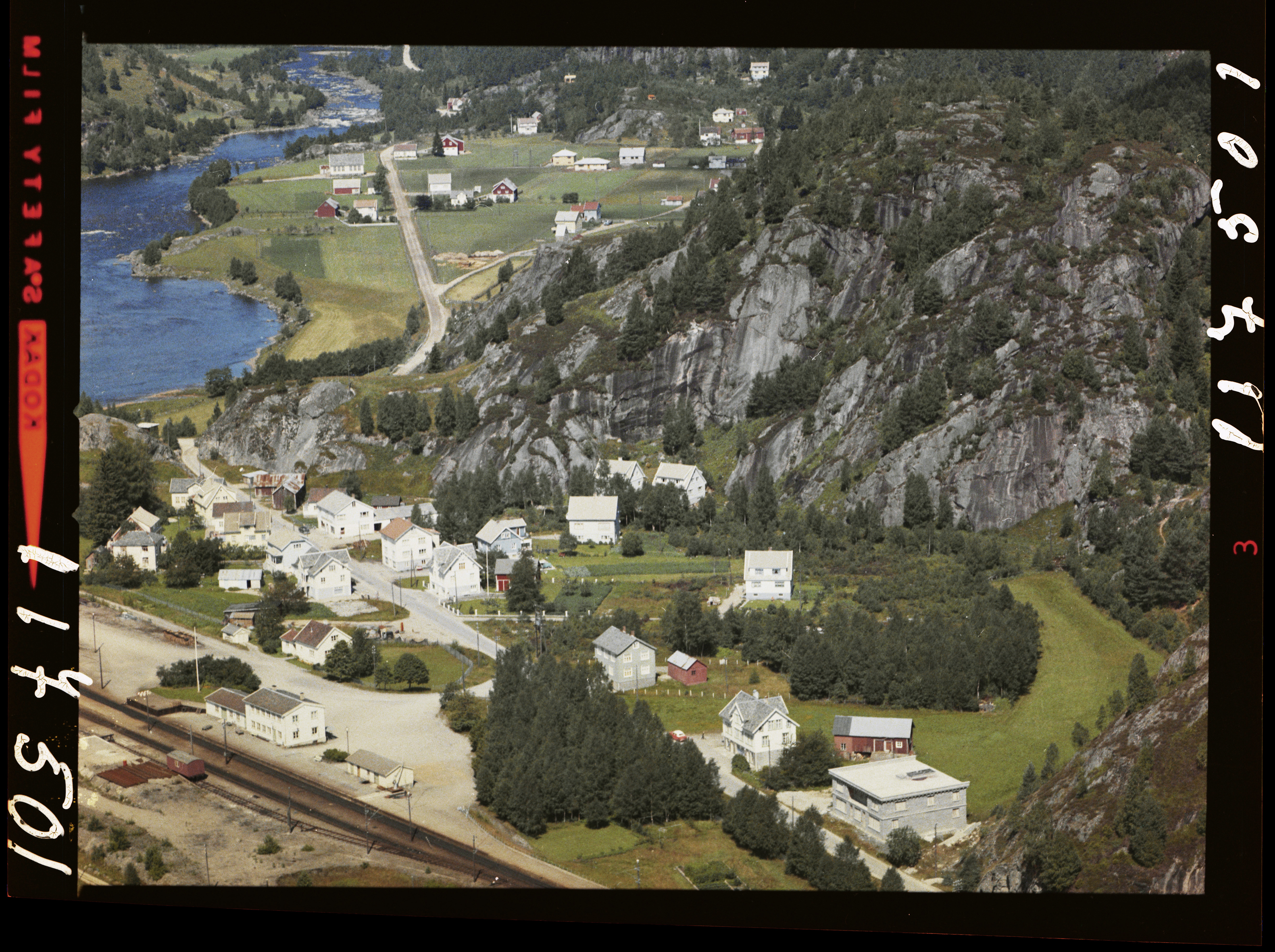 Tittel / Title: Storekvina stasjon, Kvinesdal kommune Beskrivelse / Description: Stasjonen ble åpnet i 1943 da Sørlandsbanen ble tatt i bruk frem til Moi. Stampebekken i bakgrunnen. Dato / Date: 1963 Sted / Place: Kvinesdal kommune i Vest-Agder Fotograf / Photographer: Fotograf ukjent Bildesignatur / Image Number: NB_KK_WF_117501 Digital kopi av original / Digital copy of original: Fargenegativ, acetat-base, 4 x 5,5 cm. Eier / Owner Institution: Nasjonalbiblioteket / National Library of Norway Lenke / Link